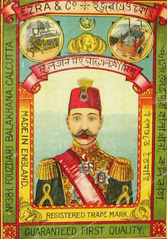 The Ottoman Sultan(possibly V.Mehmet Reşat) was popular enough to feature on Indian textile labels, c.1900s-1920's Source: ebay, June 2005